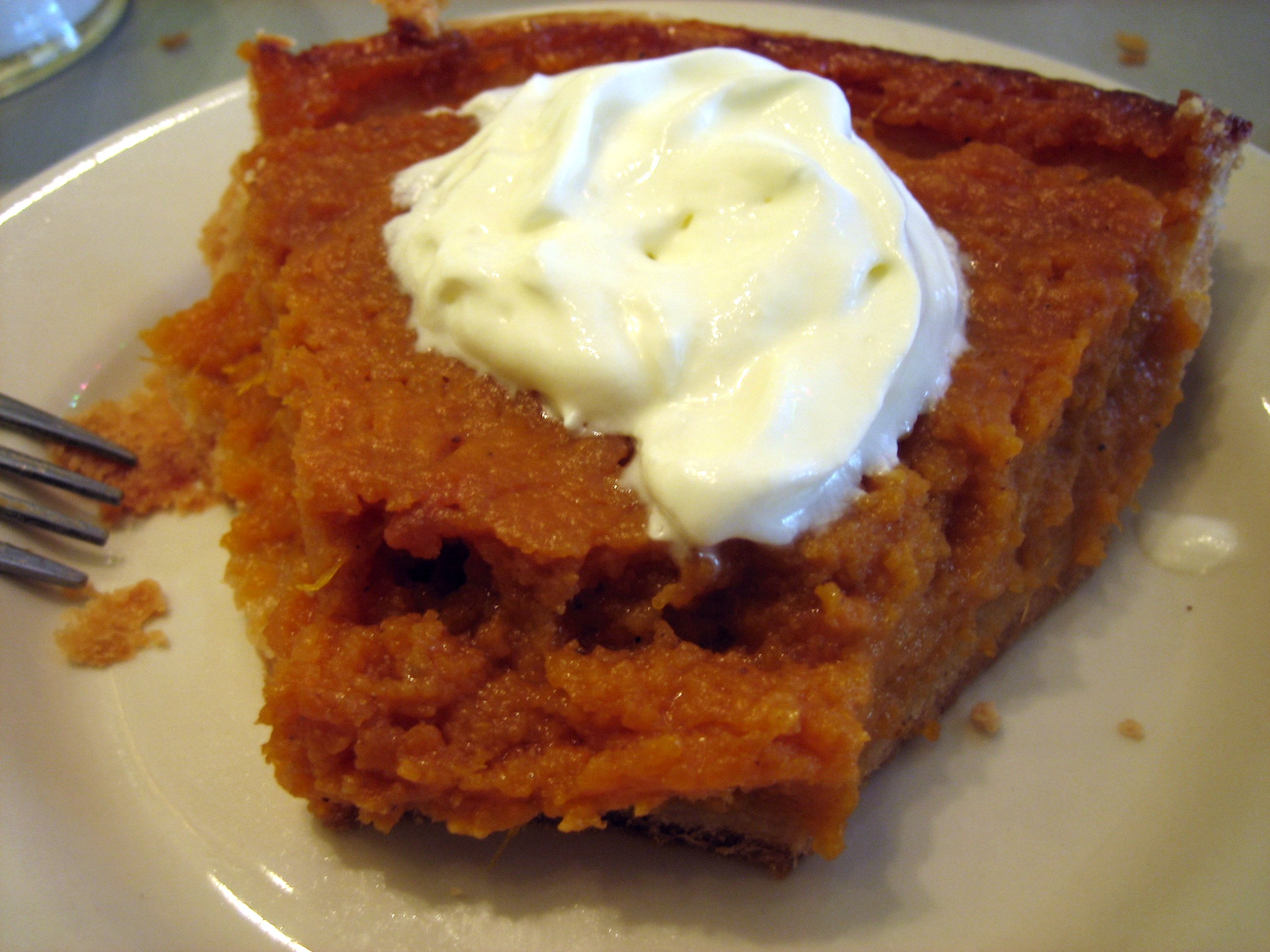 a slice of sweet potato pie